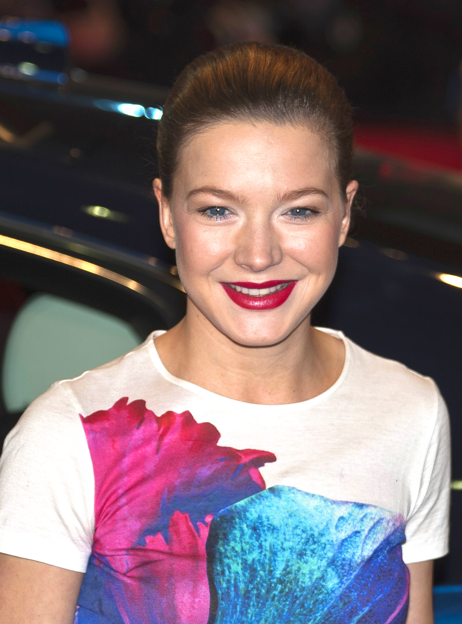 German actress Hannah Herzsprung arriving at the premiere of True Grit during the Berlin Film Festival 2011